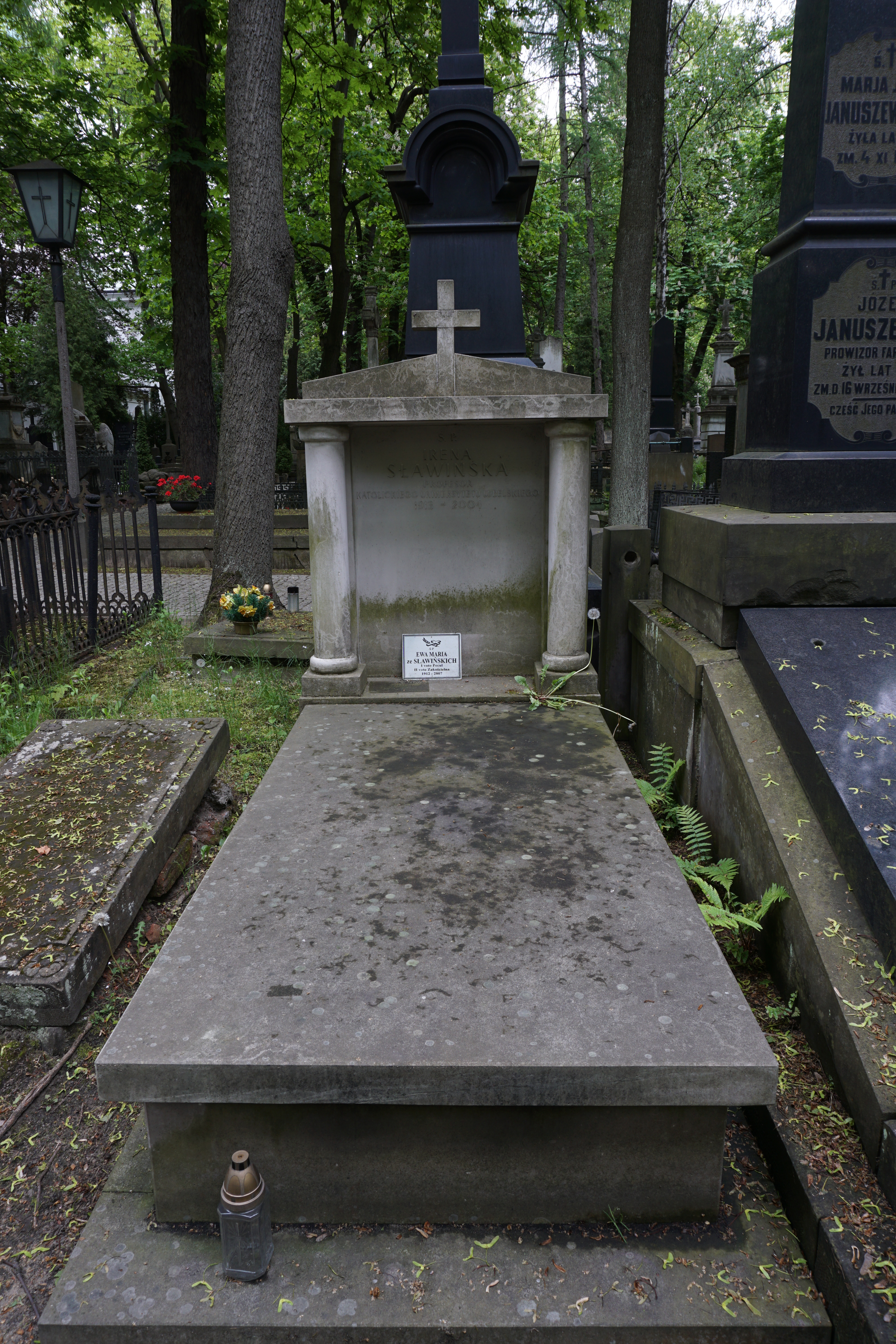 The grave of Irena Sławińska at the Powązki Cemetery (section 16, row 2, grave 4)